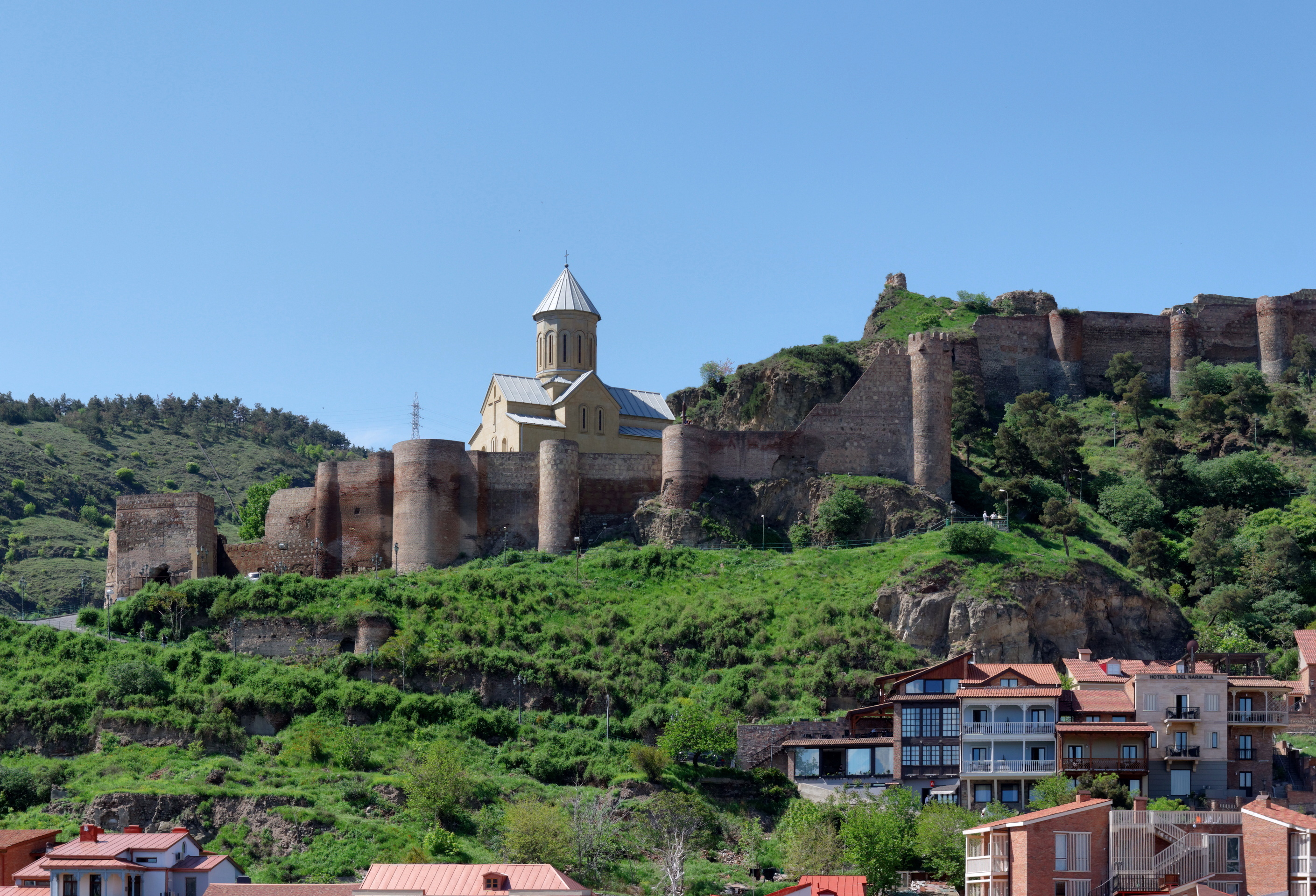 Tbilisi